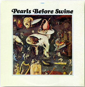 Cover of One Nation Underground